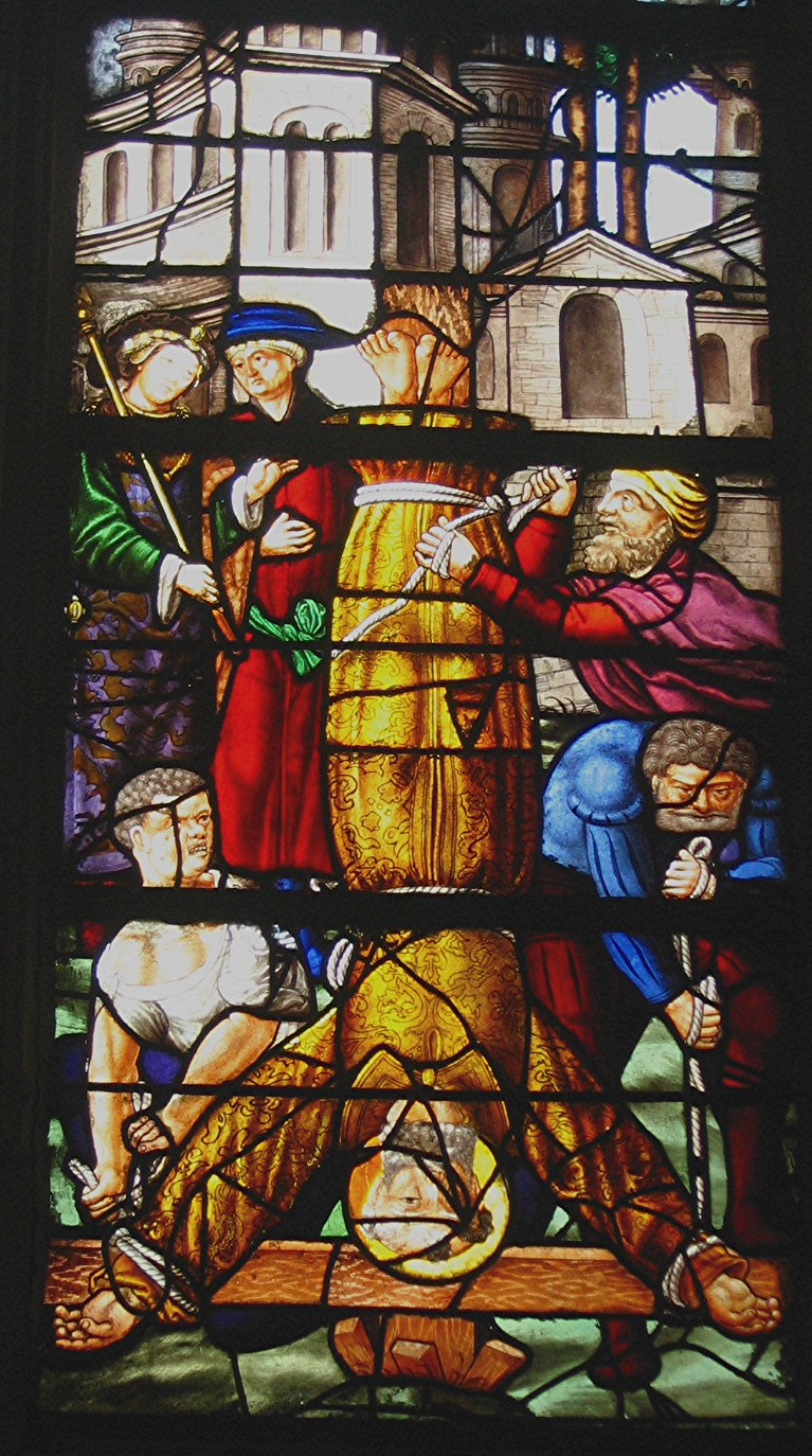 Les Andelys, church Notre Dame, stain glass, 16th century, Normandy.